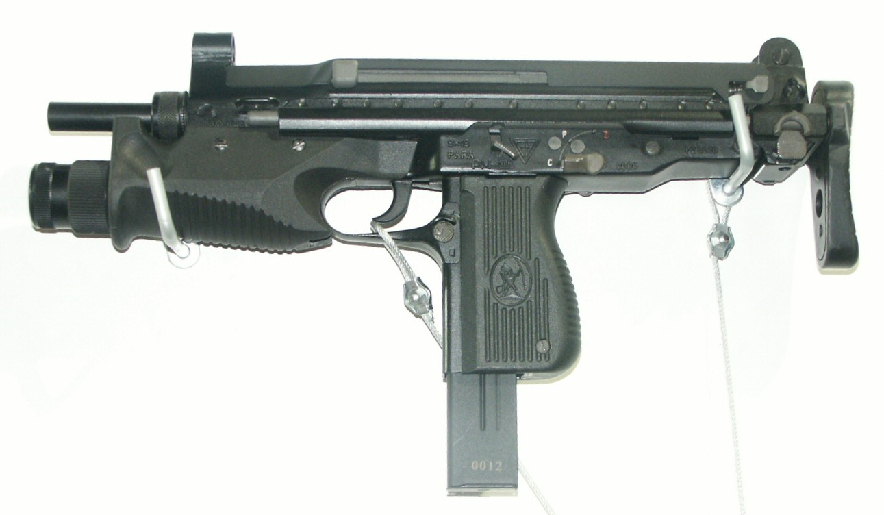 Polish SMG PM-06 Glauberyt